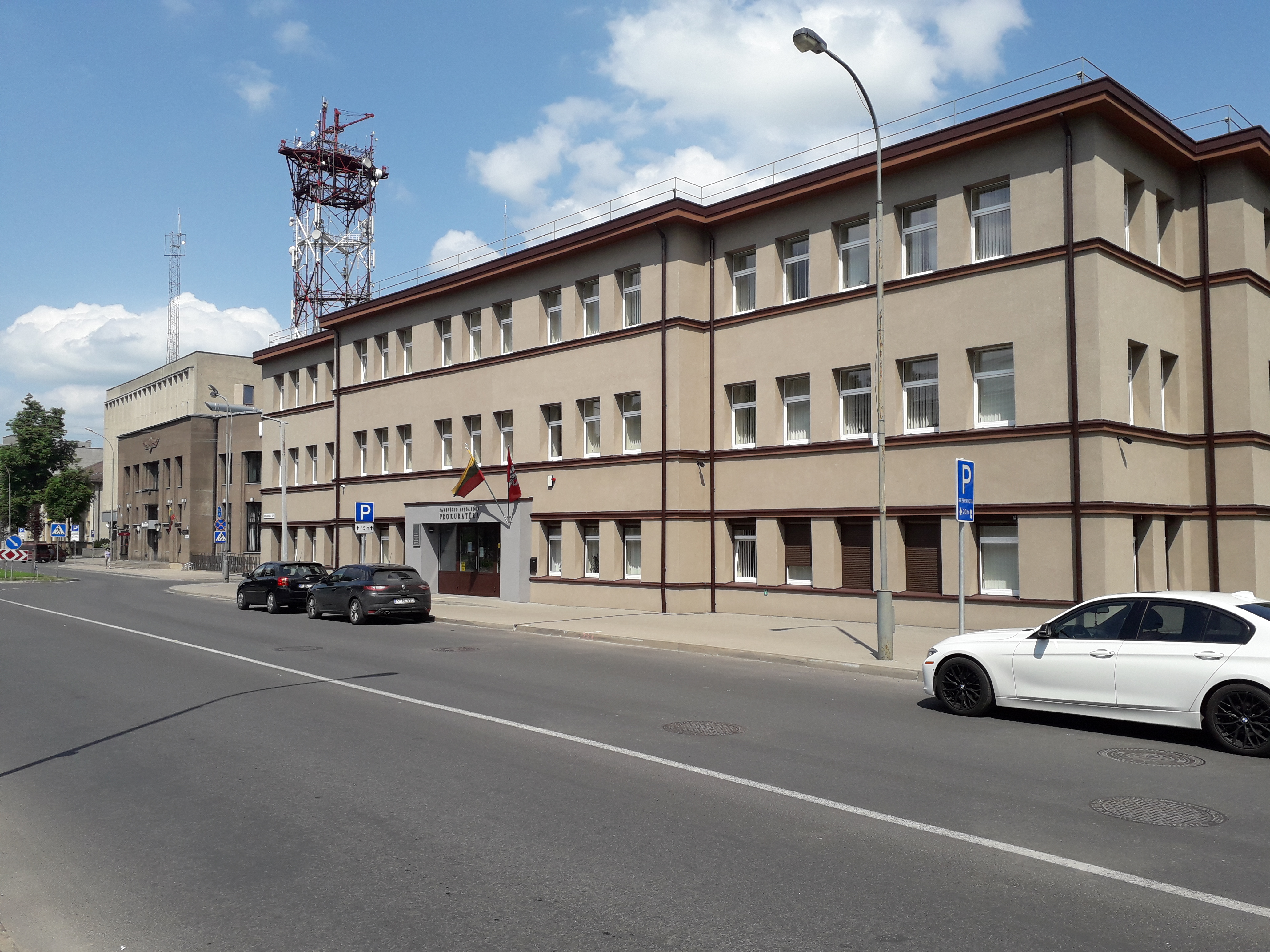 Panevėžys City District Prosecutor's Office, Lithuania